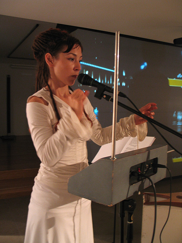 Lana Aksyonova from LaYan Projects playing theremin in Iraida Yusupova's opera "The Way of Poet".